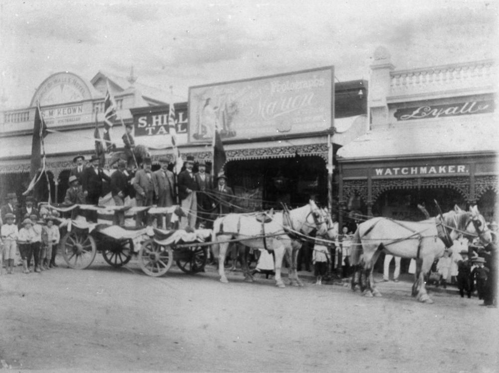 Float of the Charters Towers Stock Exchange, 23 May 1900. Procession to celebrate the Relief of Mafeking.